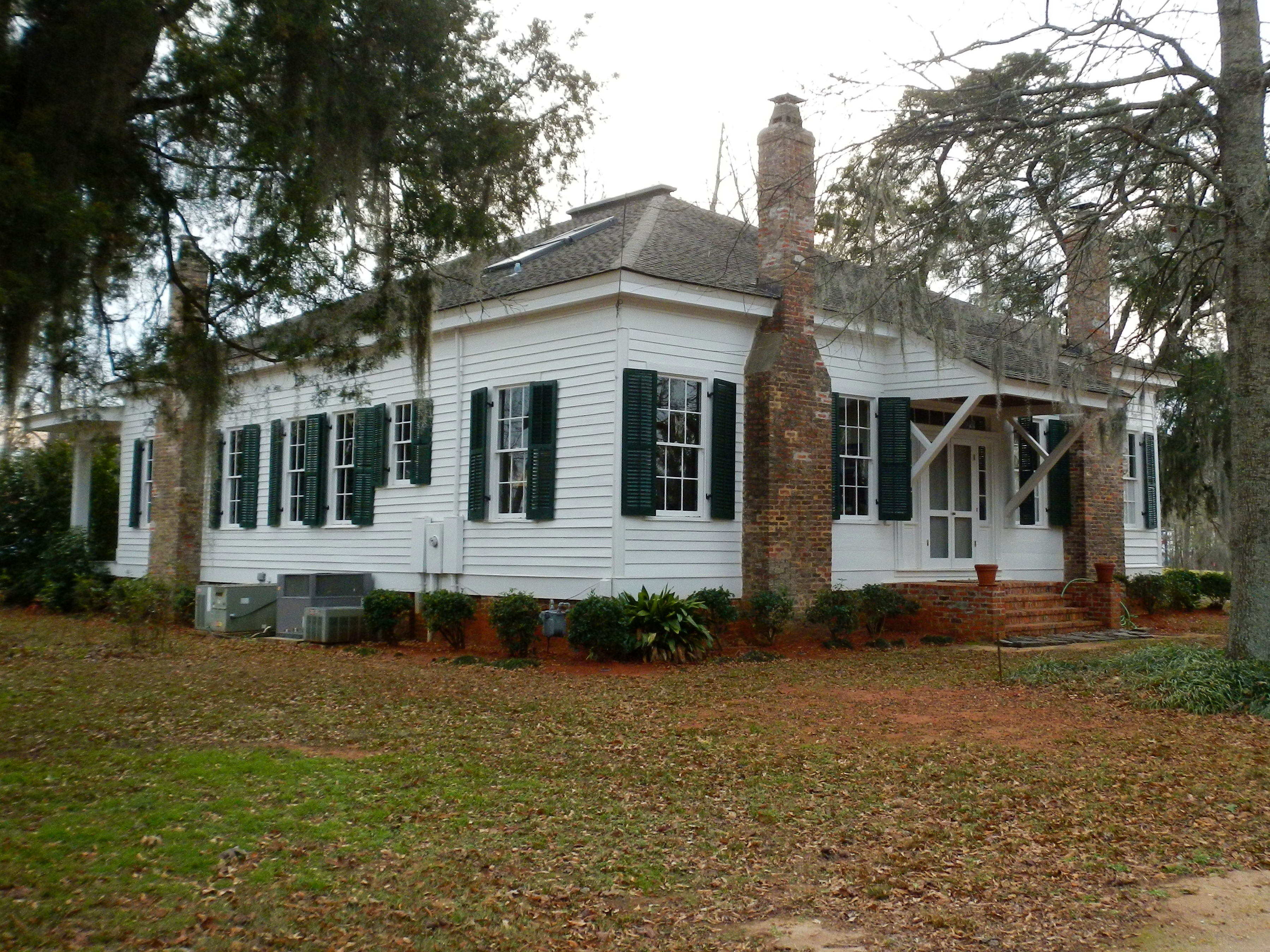 This is a photo of the Abel Hagerty House in Wetumpka, AL.